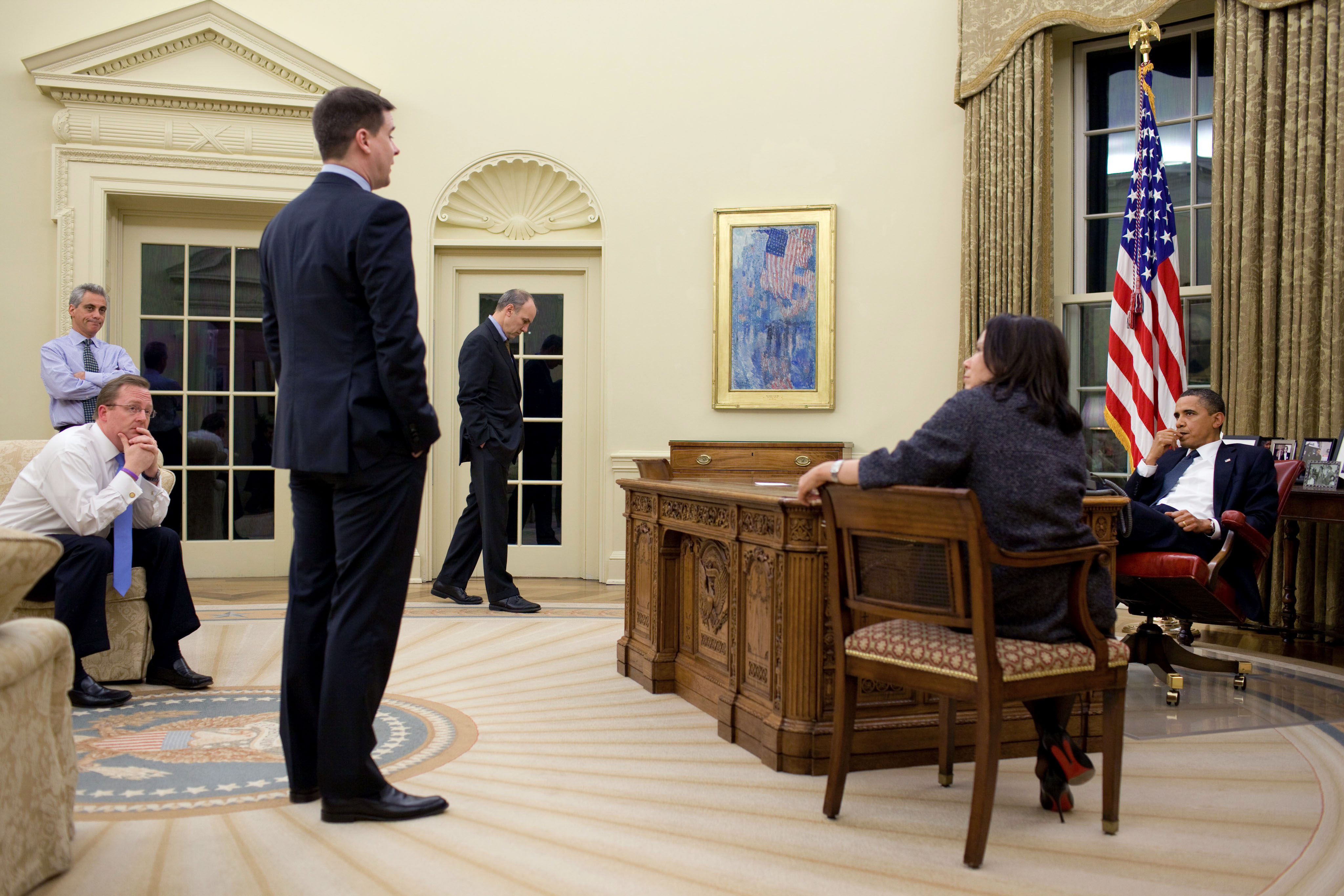 President Barack Obama meets with senior advisors on health care strategy in the Oval Office, Jan. 20, 2010. Attending, from left, are Chief of Staff Rahm Emanuel, Press Secretary Robert Gibbs, director of Communications Dan Pfeiffer, Phil Schiliro, assistant to the President for Legislative Affairs, and Nancy-Ann DeParle, director of the White House Office for Health Reform. (Official White House Photo by Pete Souza) This official White House photograph is in the public domain from a copyright perspective, so while restrictions such as personality or privacy rights may apply, in general, manipulations are allowed.